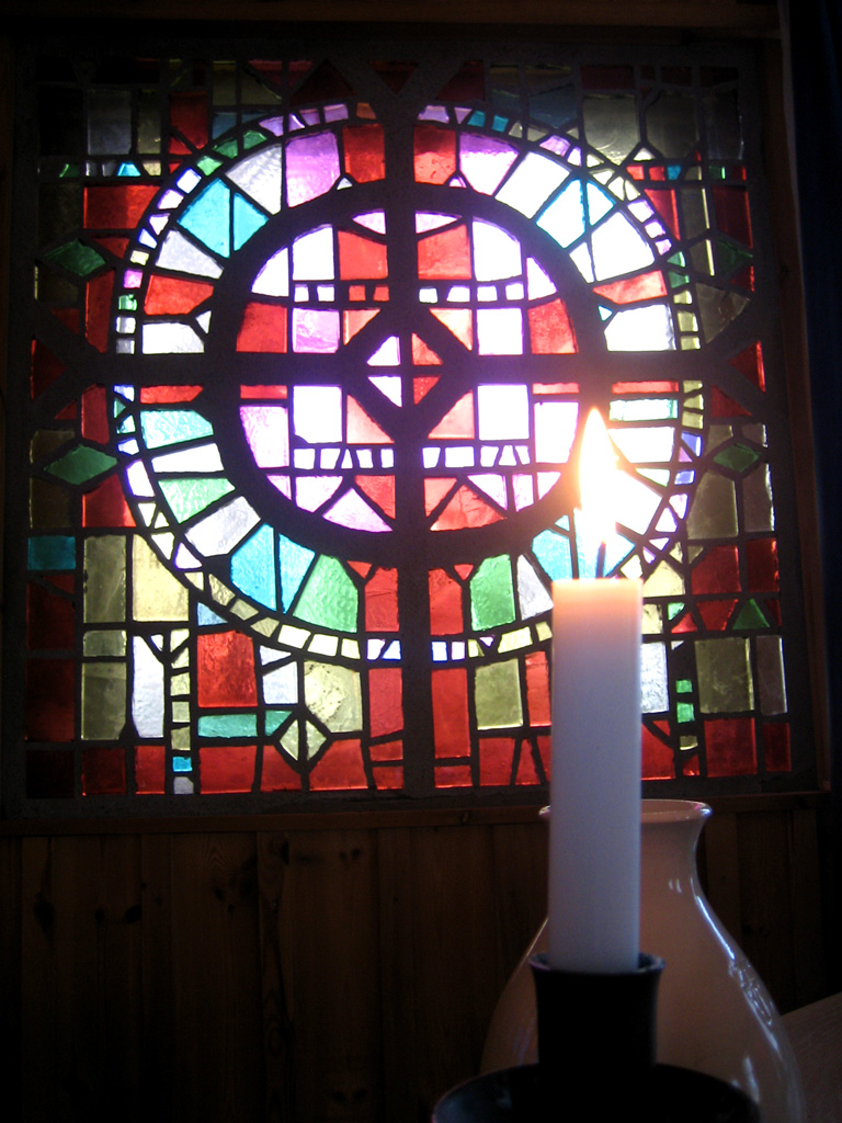 A colored window and a candle in the chaple of Kuvarp,Sweden.